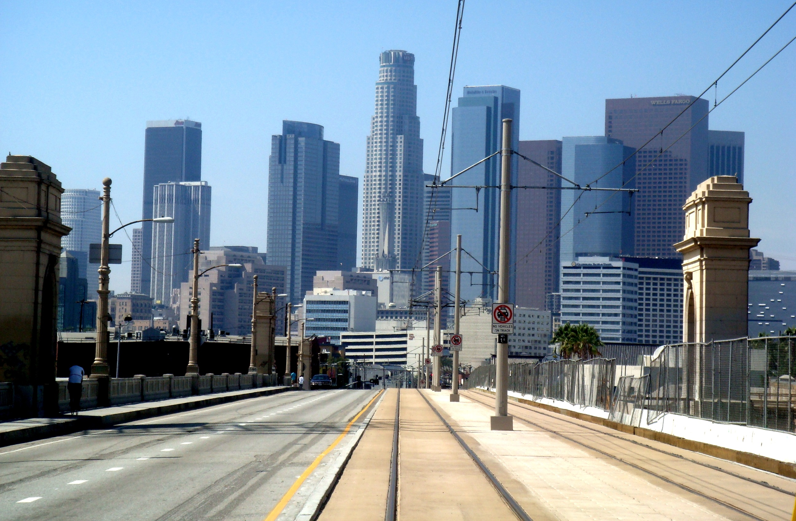 First Street Bridge. Downtown Los Angeles, CA. Looking West.